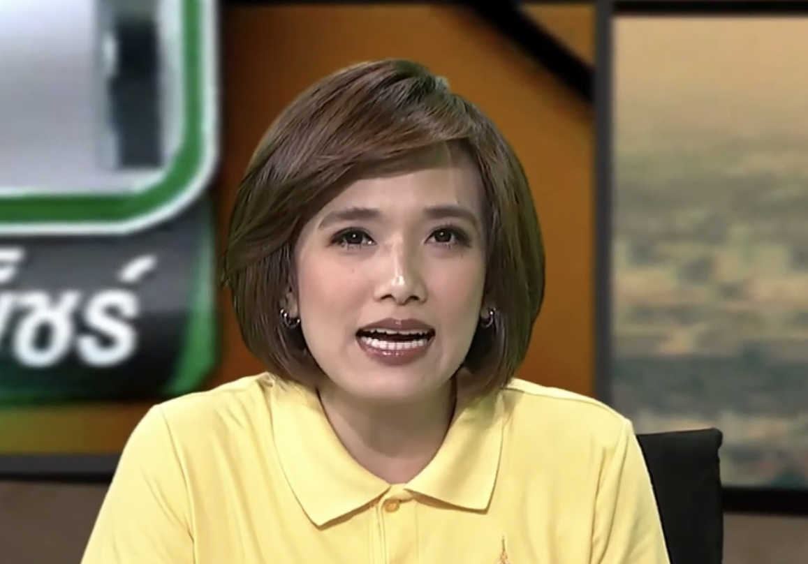 Jomquan Laopetch